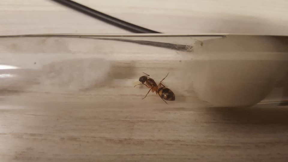 Camponotus substitutus queen